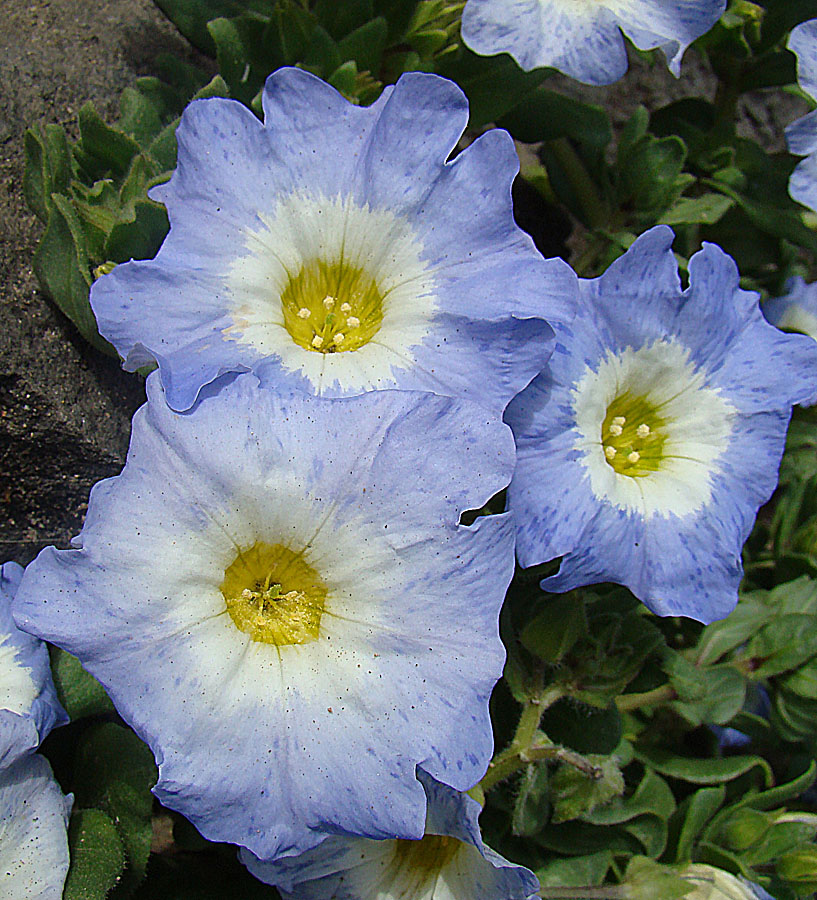 A sky-blue species of Suspiro from the beach at Quintay, Chile. In context at